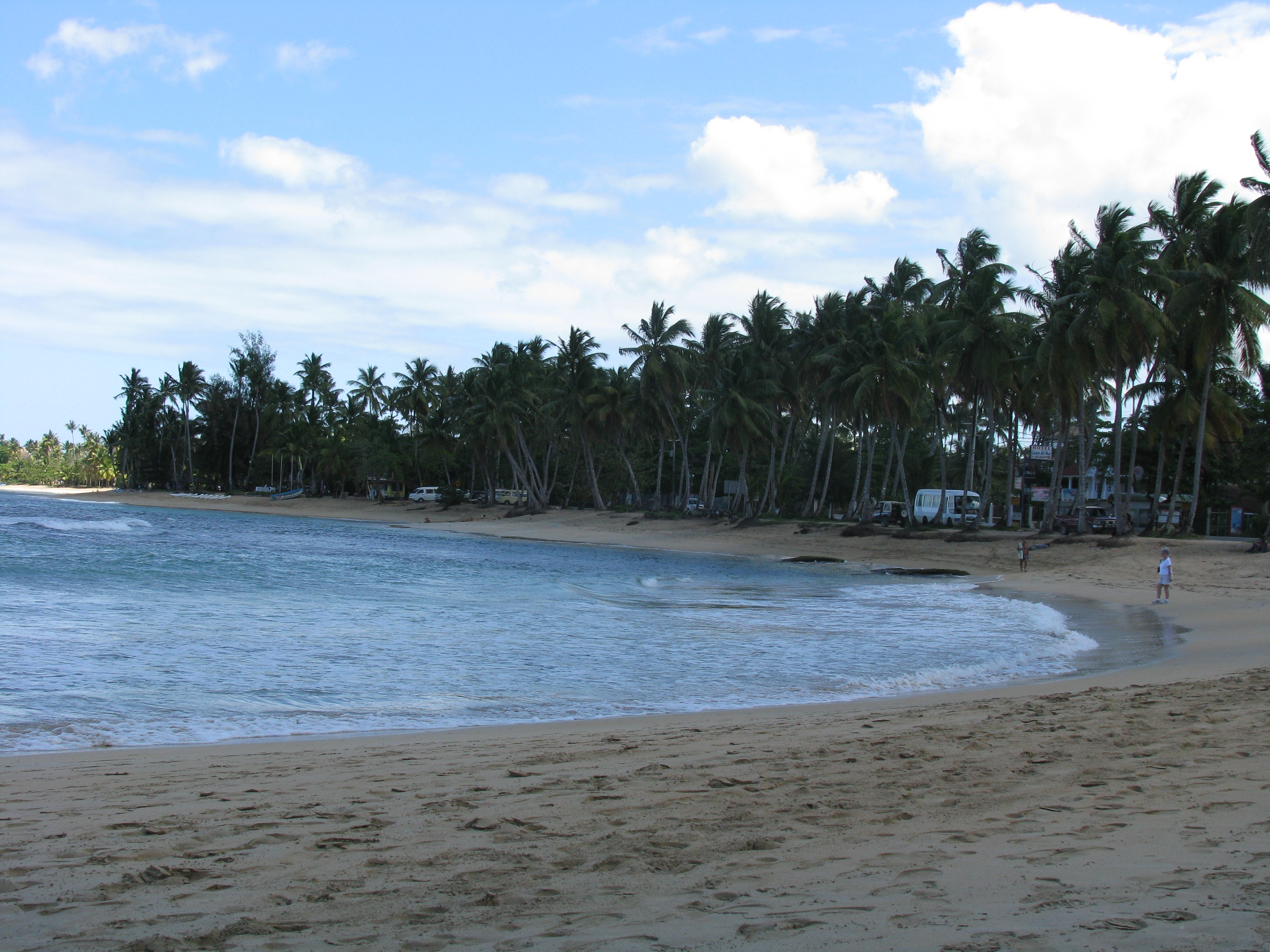 The beach in Las Terrenas.